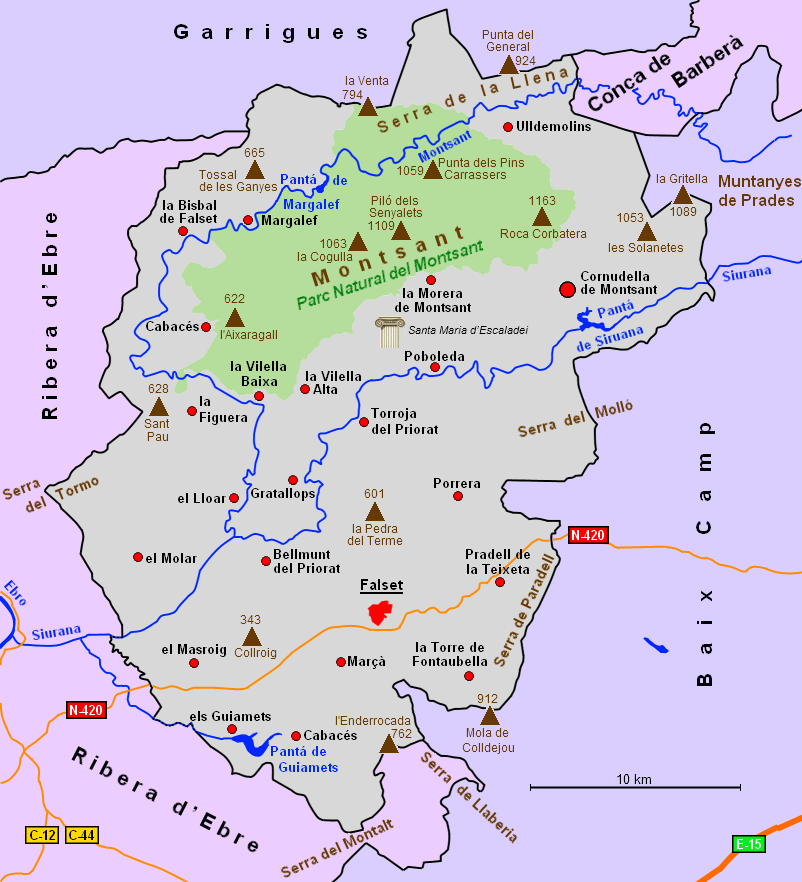 Map of the comarca Priorat, Catalonia, Spain